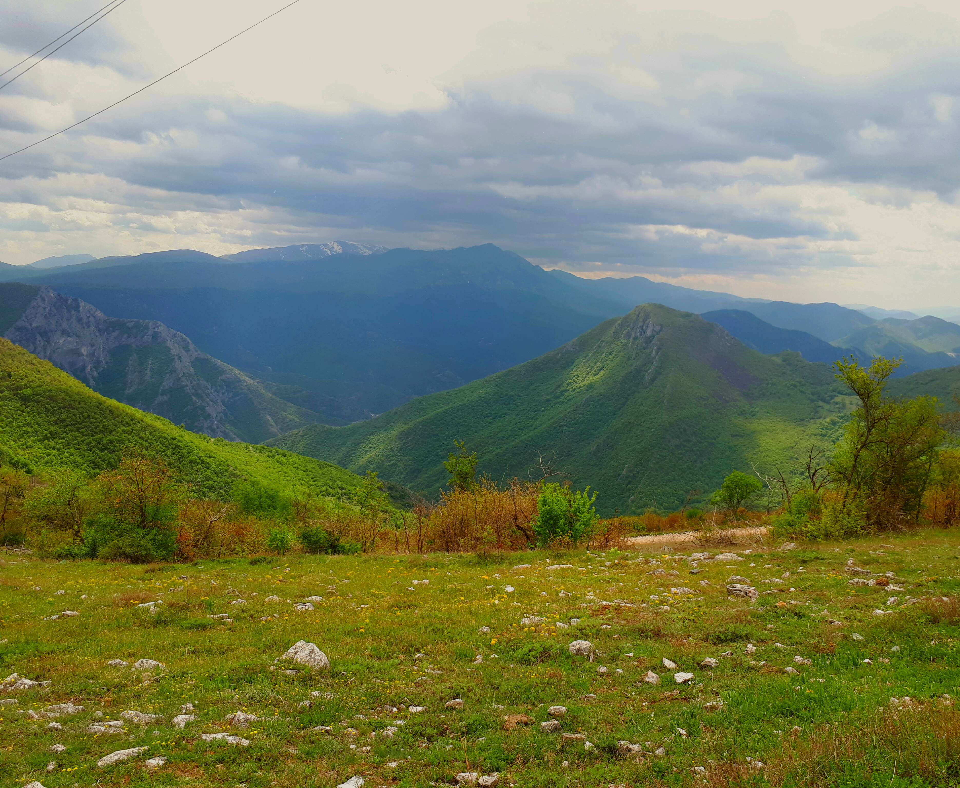 View of the peak Brikul on the Suva Gora Mountain